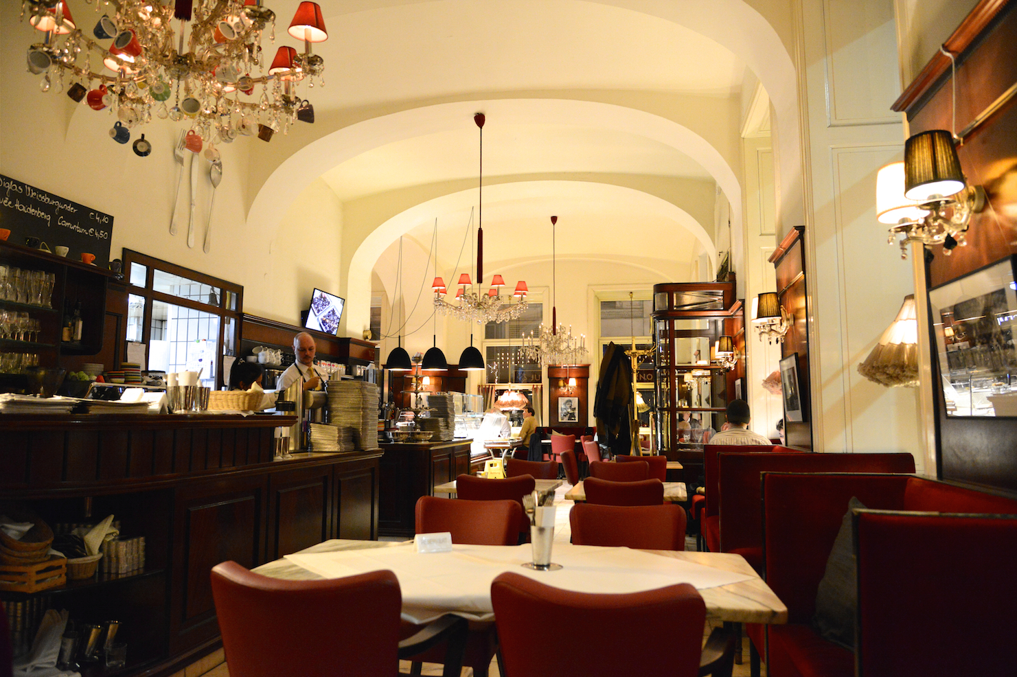 Café Diglas, Wien